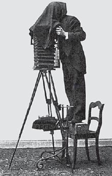 History of Medicine. Edward Flatau makes photograph of brain slices for his brain atlas